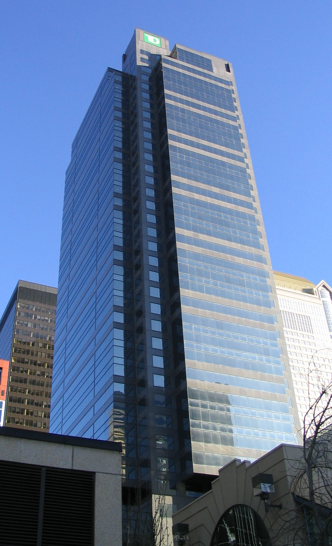 Picture taken by Kevin Cappis (Surrealplaces)